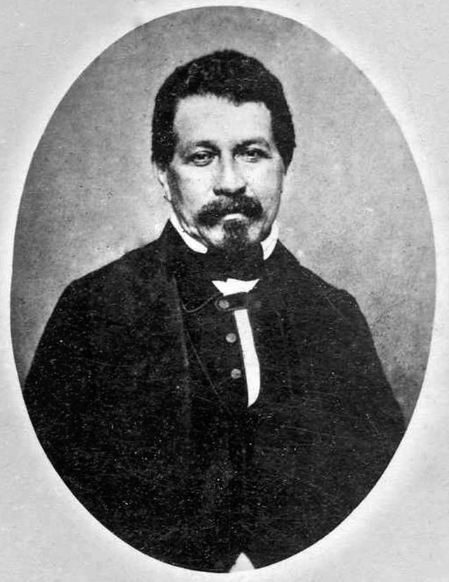 Juan Jose Nieto Gil, President of Colombia.in 1961.